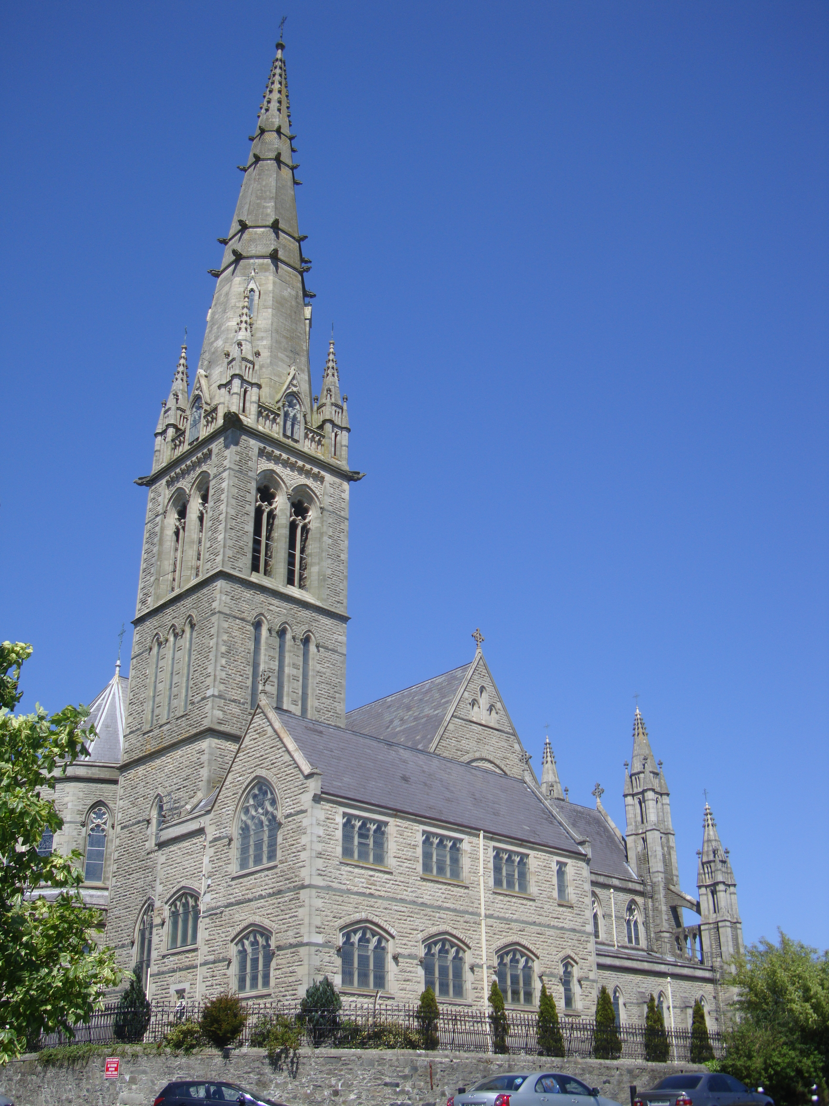 Photograph of St Eunan's Cathedral, Letterkenny, Co. Donegal, Ireland